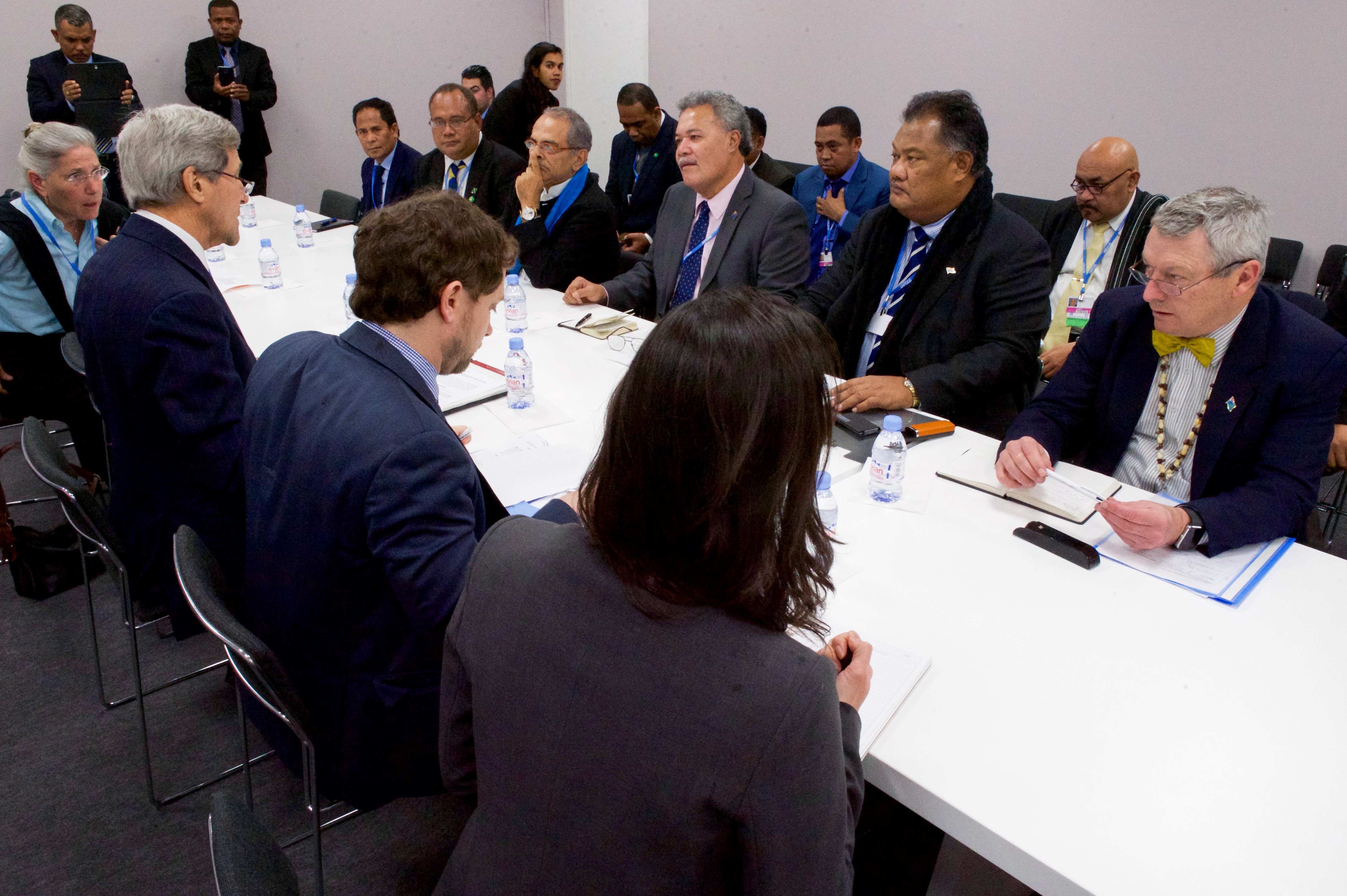 U.S. Secretary of State John Kerry and his team sit with Tuvaluan Prime Minister Enele Sopoaga before their bilateral meeting on the margins of the COP21 climate change summit in Paris, France, on December 8, 2015. [State Department photo/ Public Domain]